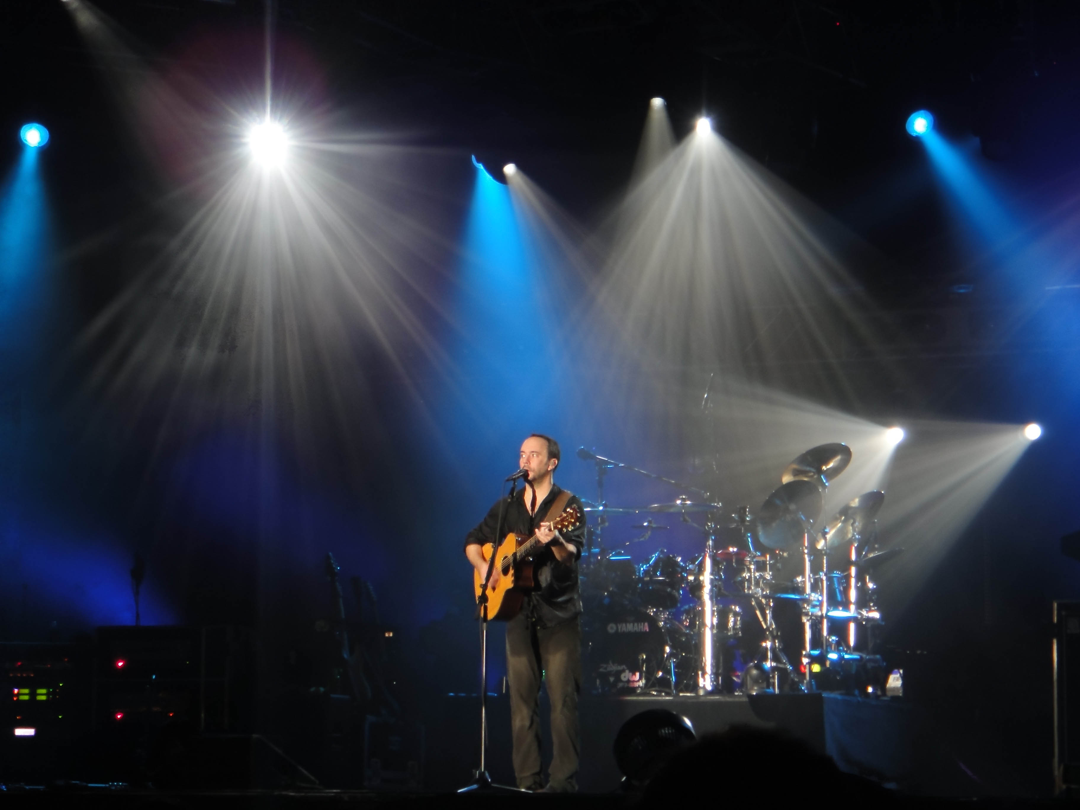 Dave Matthews performing "The Needle and The Damage Done" (Neil Young cover) during the encore of Dave Matthews Band during Bonnaroo 2010